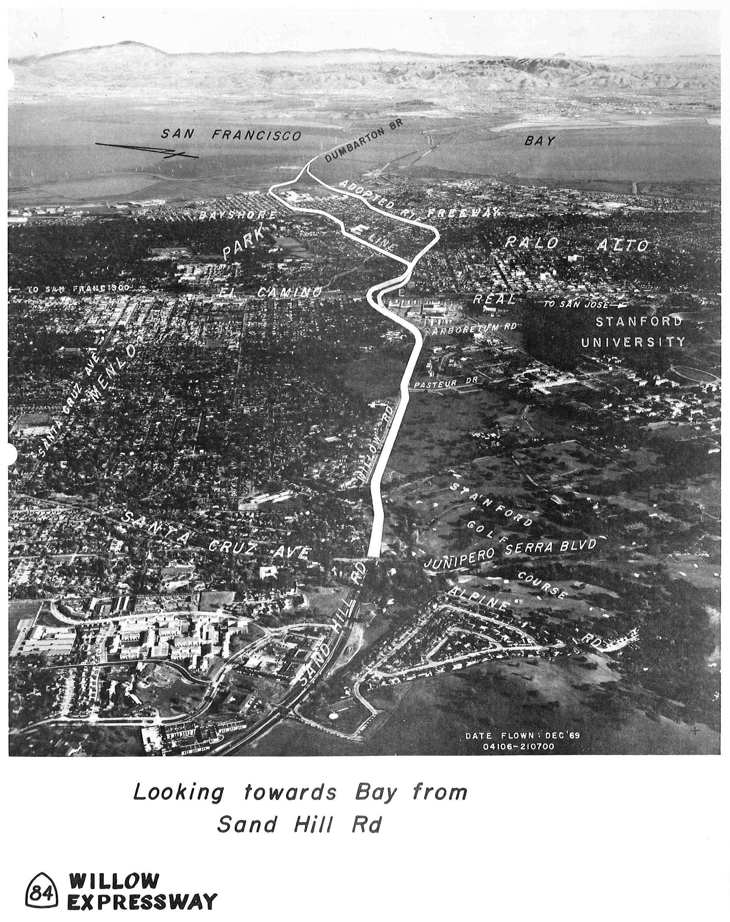 Draft Environmental Statement on Controlled Access Highway Location of Route 84 in San Mateo and Santa Clara Counties and the Cities of Menlo Park and Palo Alto between Santa Cruz Avenue and the Dumbarton Bridge, 6.4 miles, 04-SM, SCL-84 23.2/29.6, May 1971